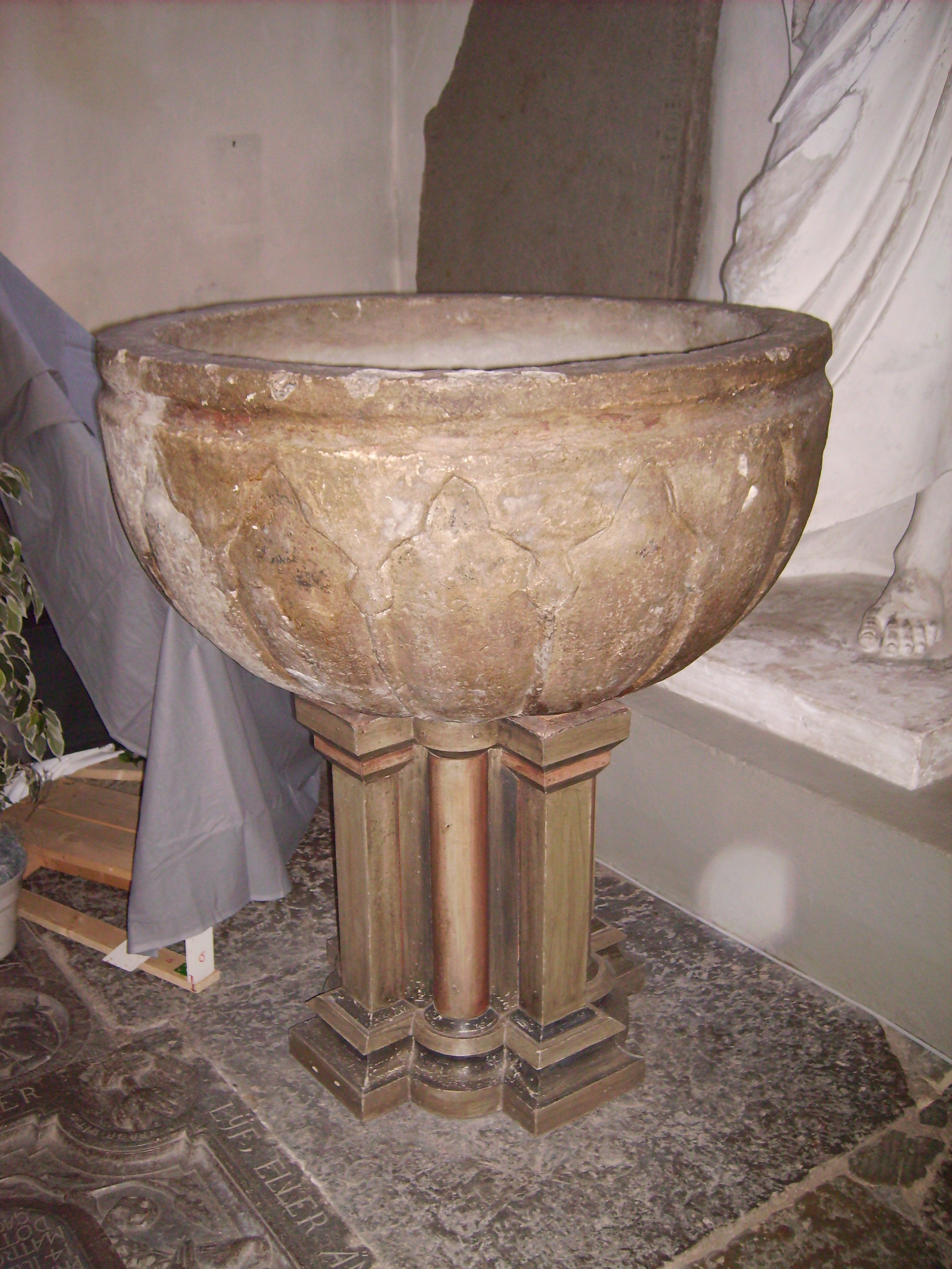 The Middle Age church ”Vårfrukyrkan” in Skänninge, built around 1300 by the German population in the town, the Swedish population had a different church, but after the Reformation this is the only church left in the town, churches and monasteries destroyed by the Swedish king Gustaf Vasa around 1550, when he need stones to his new castle in Vadstena.